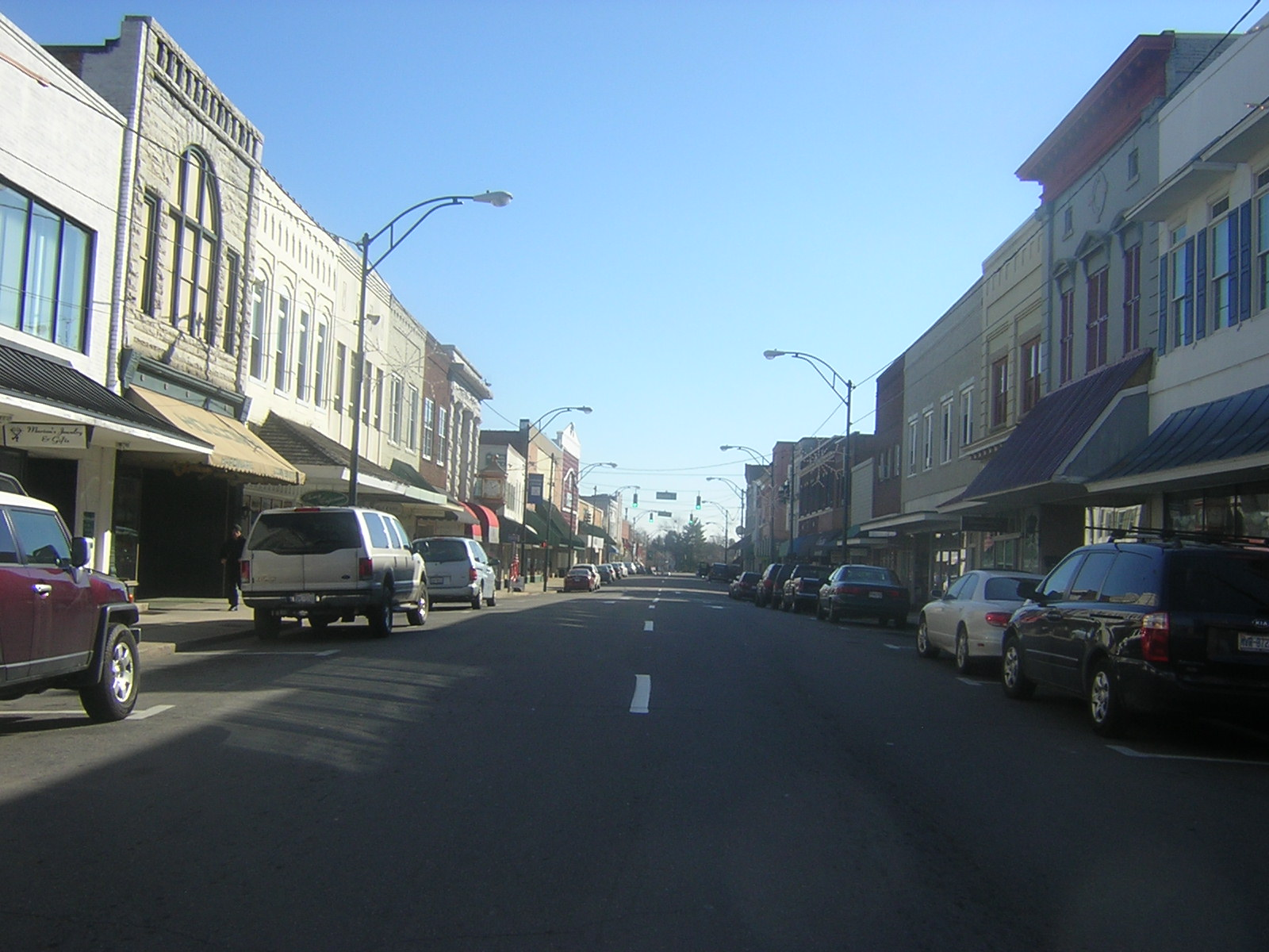 I took this in Downtown Mount Airy, NC on January 27, 2008